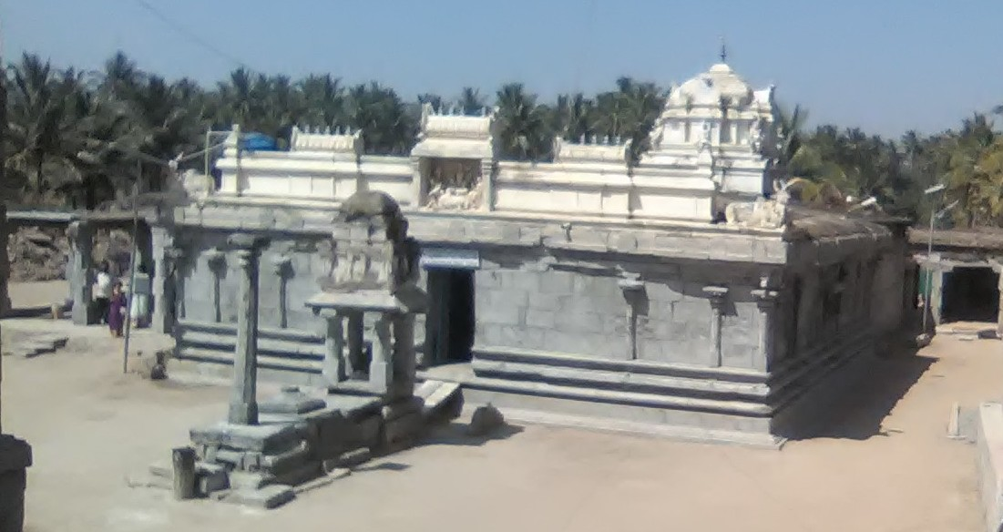 கிருஷ்ணகிரி மாவட்டம் அத்திமுகத்தில் உள்ள ஐராவத ஈசுவரர் கோயில்